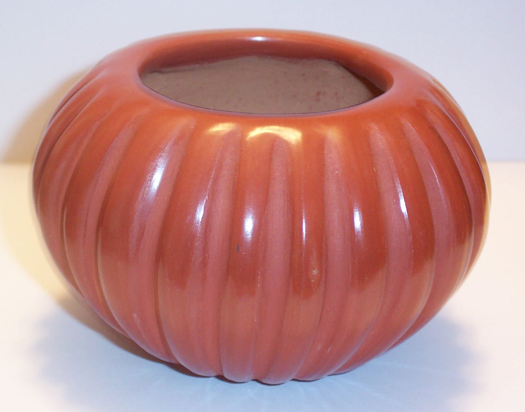 Red melon bowl, crafted in 1992 by Angela Baca of Santa Clara Pueblo, New Mexico. From a private collection.